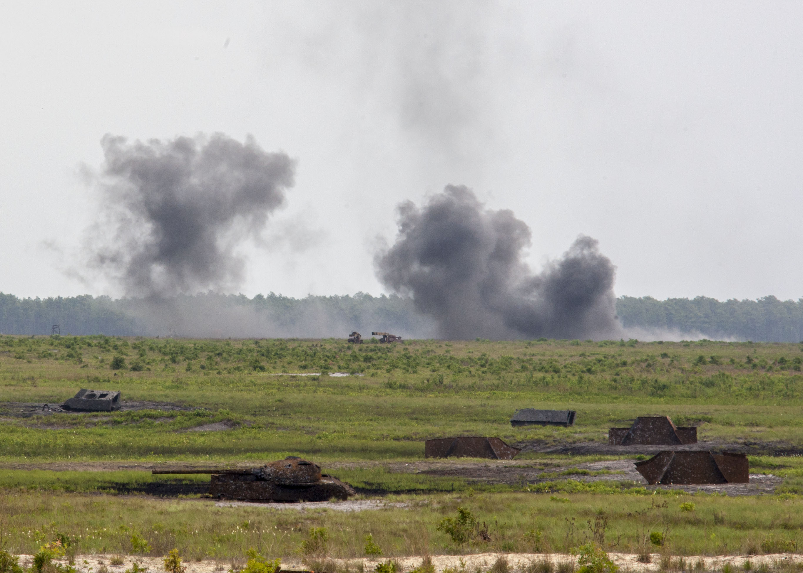 Smoke rises as rounds impact the ground from M777 Howitzers during a 1st Battalion, 10th Marine Regiment Jane Wayne Day event aboard Camp Lejeune, N.C., June 6, 2014. The purpose of the event was to give family members a chance to better understand what their loved ones do in the Marine Corps. (U.S. Marine Corps photo by Sgt. Christopher Q. Stone, COMCAM, MCI-East, Camp Lejeune/Released)